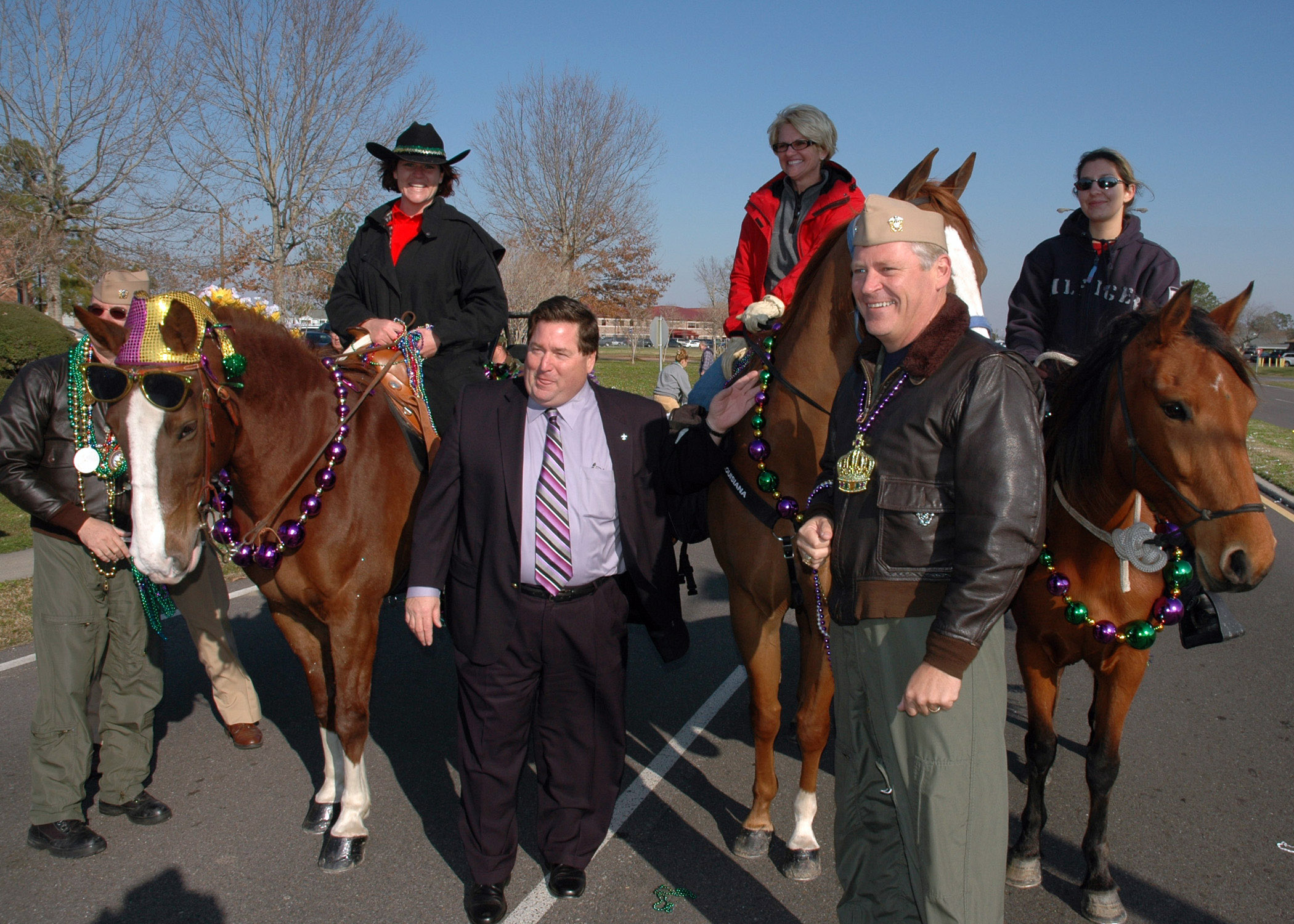 Naval Air Station Joint Reserve Base, New Orleans (Feb. 14, 2007) - Commanding Officer of Naval Air Station Joint Reserve Base New Orleans, Capt. Walter J. Adelmann, and Plaquemines Parish President Billy Nungesser take part in festivities during the 19th Annual Plaquedilla Parade. The parade is a family oriented event that has been hosted by the base for 19 years. U.S. Navy Photo by Mass Communication Specialist 1st Class Shawn D. Graham (RELEASED)